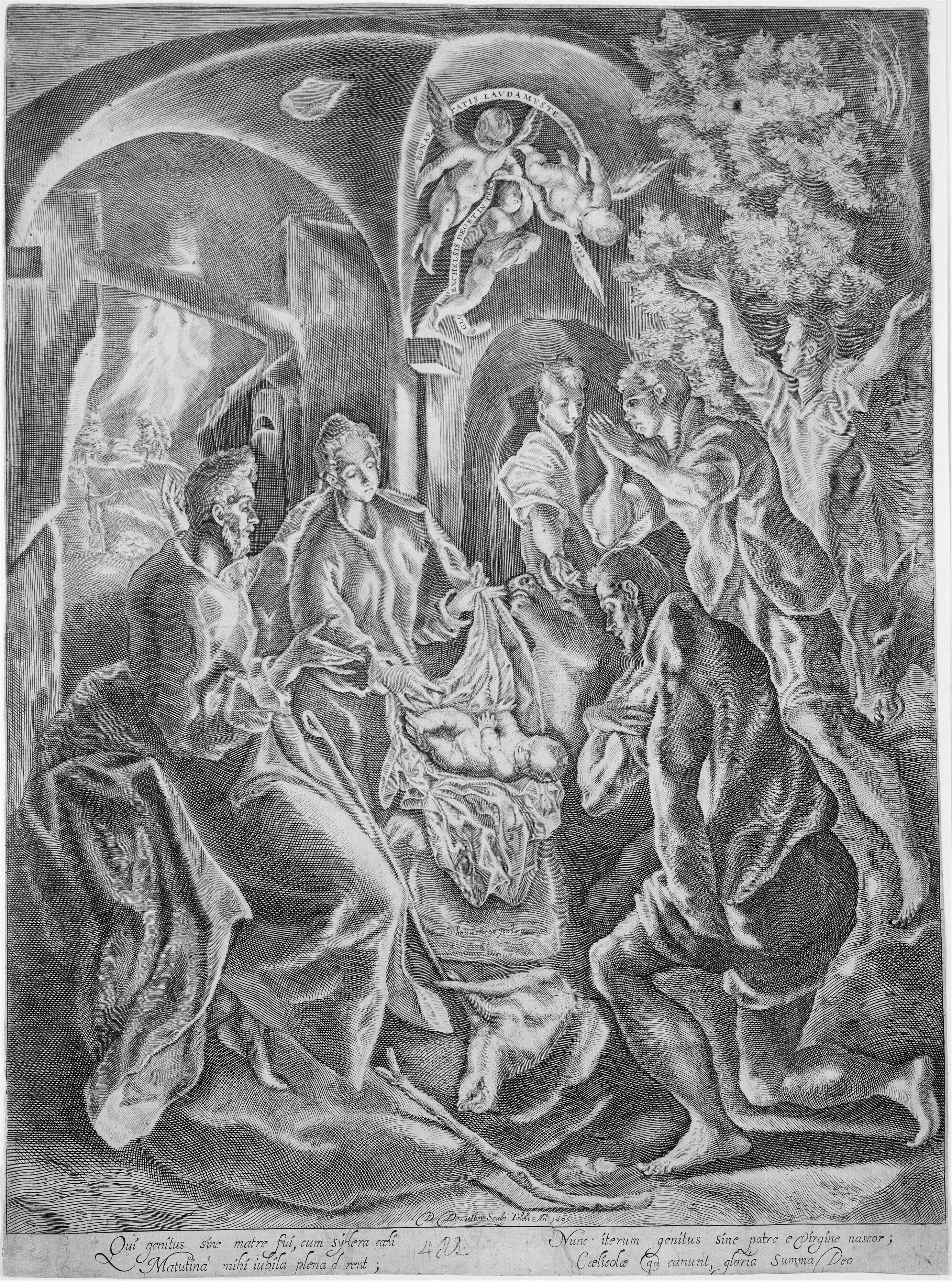 Print; Prints